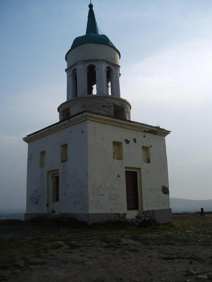 Bell tower of Nizhny Tagil on fox hill (Lishu gora). One of the symbols of the city. Taken in summer 2005.